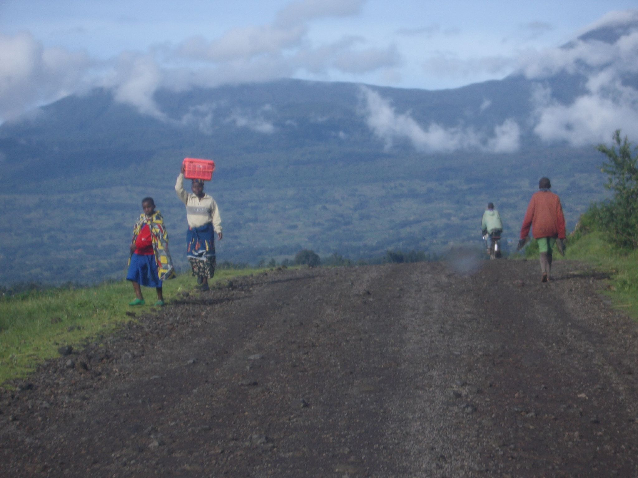 Michael Rosenberg (me)